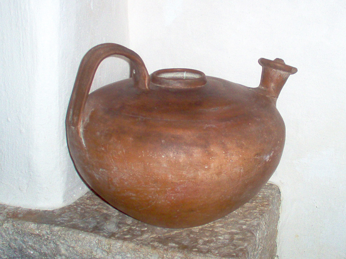 Water jar ​​(in basque: pegarra, pedarra or kantarue) of the French Basque Country (Mouguerre, Labourd, F-64990). This type of jar used to be carried on the head.